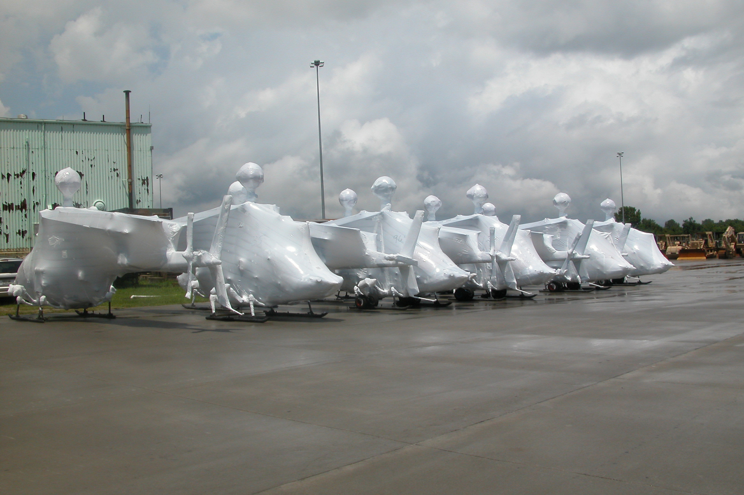 Naval Weapons Station Charleston, S.C. (Aug. 8, 2003) – Army OH-58 Kiowa Warrior helicopters assigned to the 82nd Airborne Division from Fort Bragg, N.C., are shrink wrapped and ready to be loaded onto the Military Sealift Command (MSC) large, medium-speed roll-on/roll-off ship USNS Seay (T-AKR 302), for deployment to Iraq. Twenty-five percent of all Army combat equipment used in support of Operation Iraqi Freedom was shipped from Naval Weapons Station Charleston, the home of the Army's 841st Transportation Battalion and historically the busiest port in the Transportation Command. U.S. Navy photo by Bart Jackson. (RELEASED)